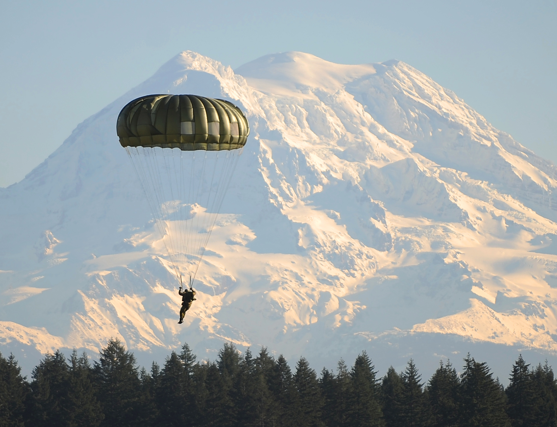 A Canadian special operations soldier descends in front of Mt. Rainier onto Fort Lewis, Wash., after jumping with U.S. 1st Special Forces Group Soldiers Dec. 2 during Menton week. The week-long celebration leads up to the 65th annual Menton Day, which commemorates the inactivation of the combined U.S. and Canadian First Special Service Force on Dec 5, 1944. See more at A special celebration: U.S., Canadian special forces commemorate combined efforts during WWII